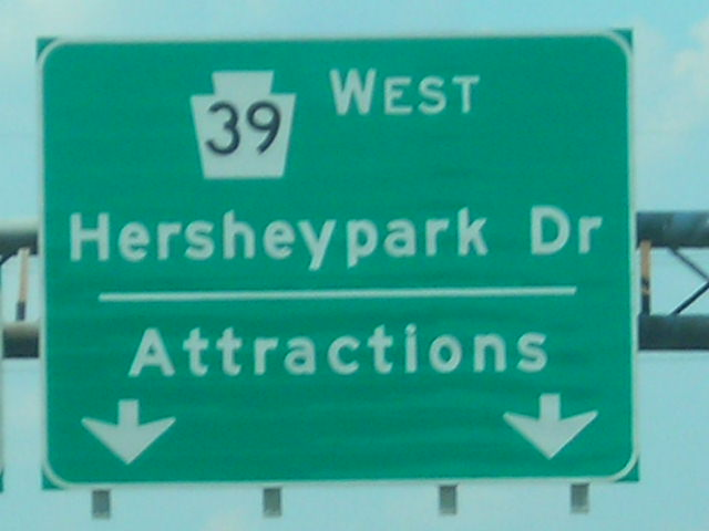 I took the picture myself.